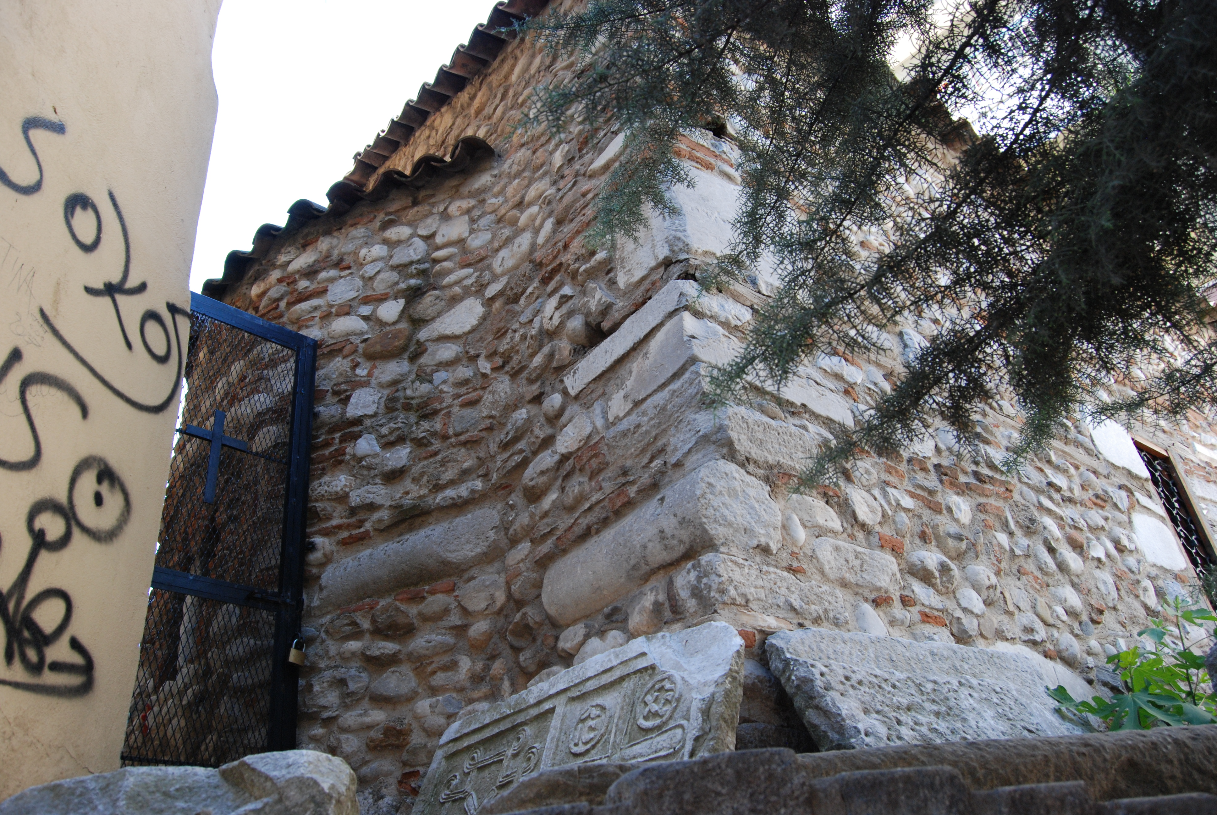 The church of Holy Archangels in the town of Drama, Greece